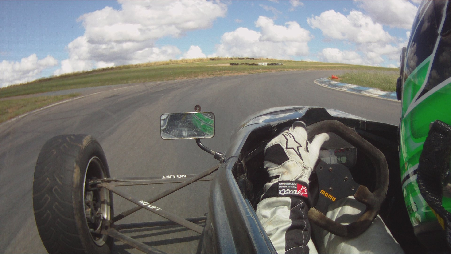 In Car Footage from a Van Diemen RF01 driven by Micheal Fitzgerald Cork Racing